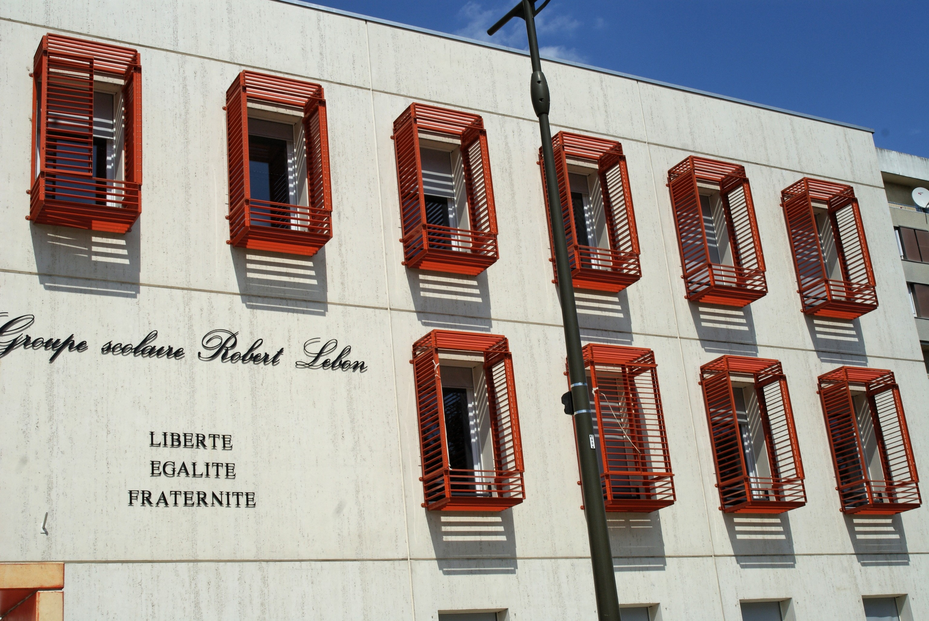 Robert-Lebon school in Villejuif (Val-de-Marne).